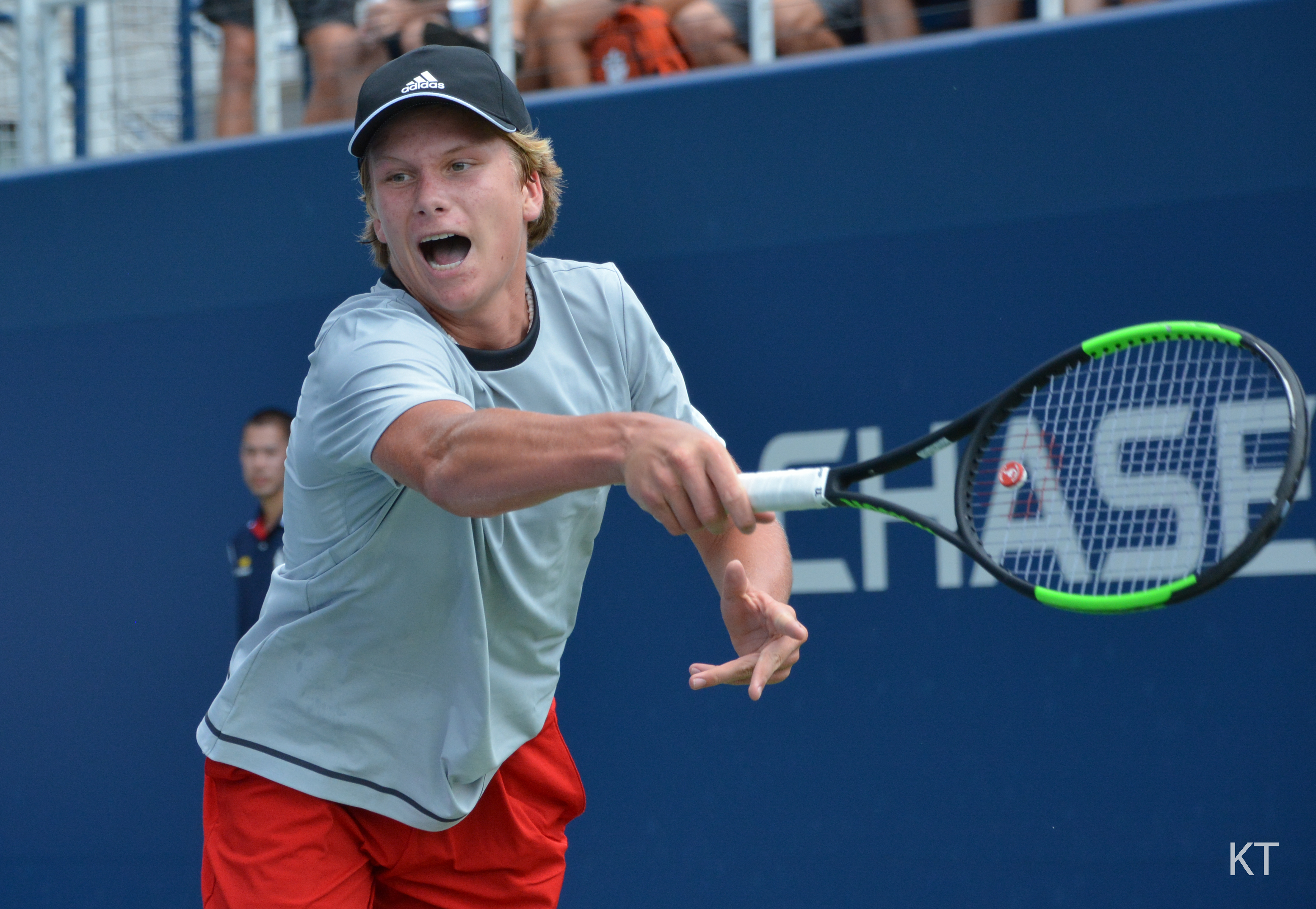 Day 2 of US Open 2018 – Tuesday, 28th August 2018.